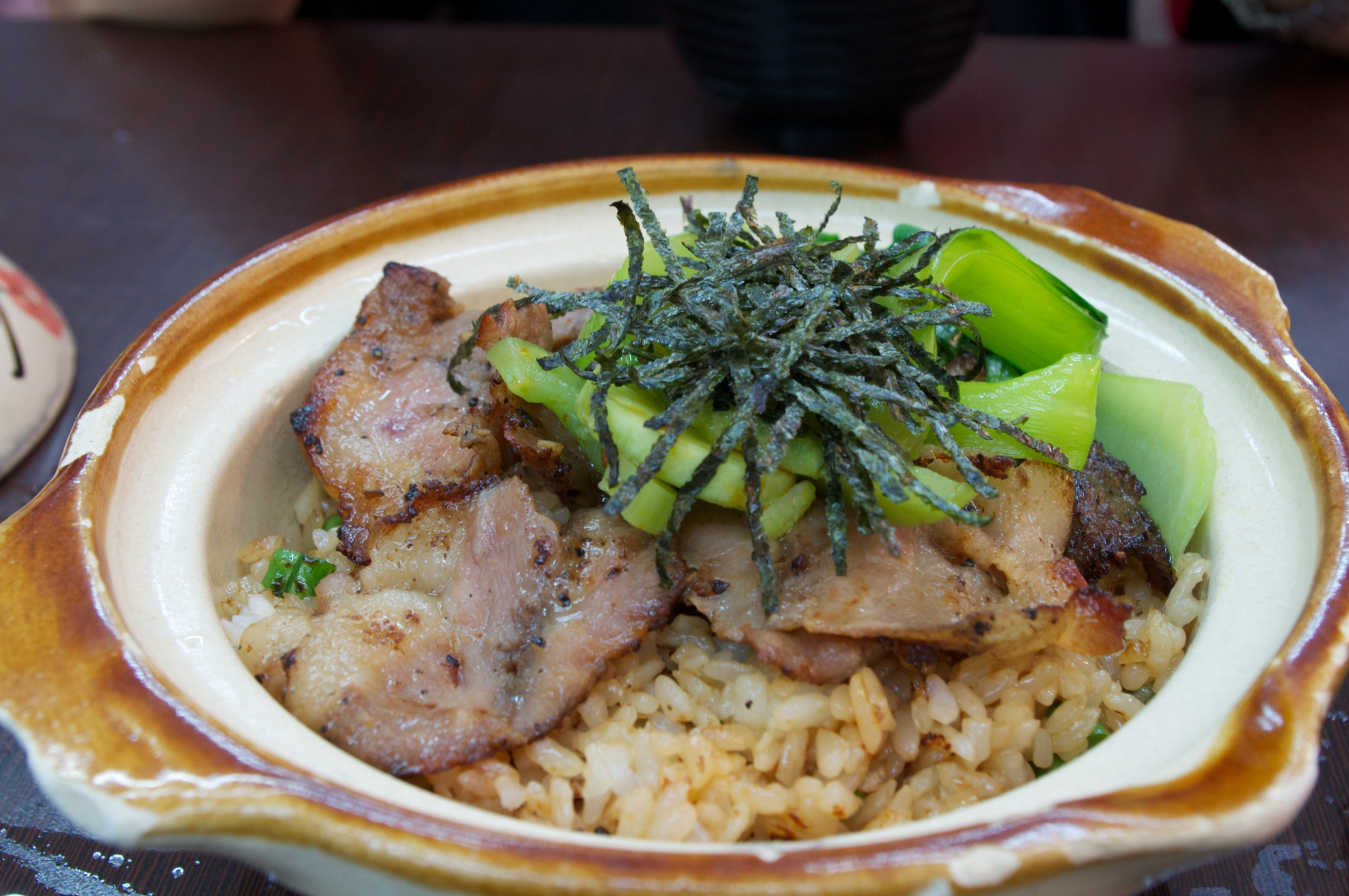 Takikomi gohan with fried pork 台湾風焼き豚肉入りの五目ご飯